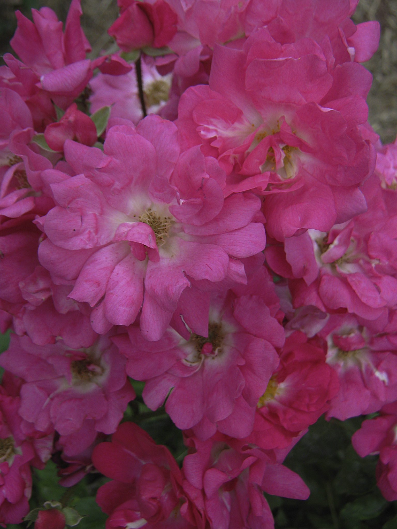 Rose 'Mrs Alston's Rose', Polyantha by Alister Clark 1940; Photographed in the Alister Clark Memorial Rose Garden, Bulla, Victoria